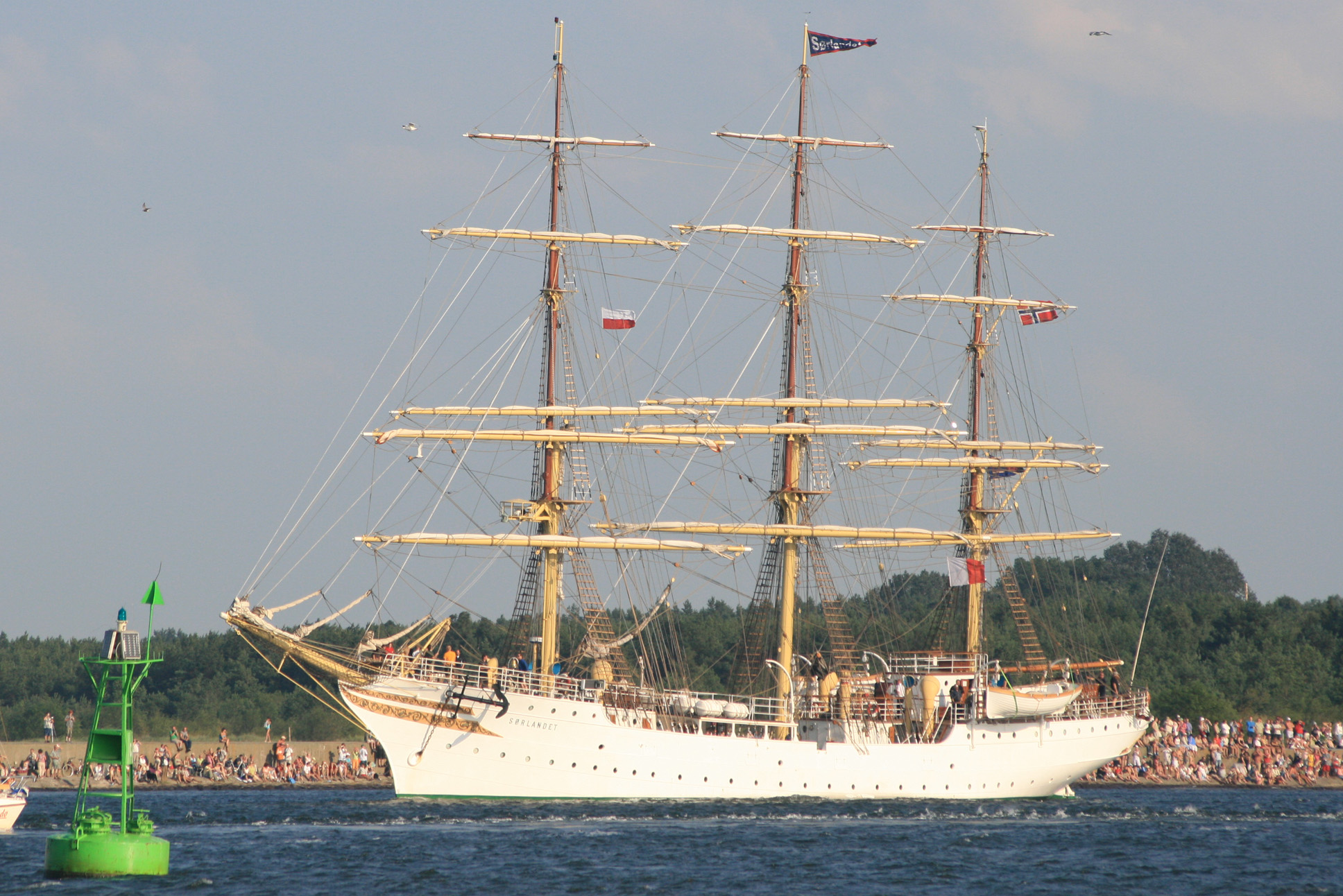 Sørlandet, The Tall Ships' Races 2007, Świnoujście